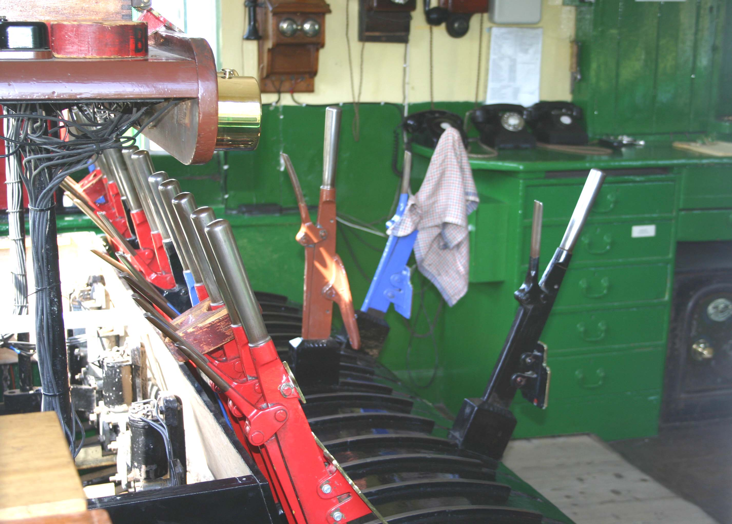 Inside a signal box on the Isle of Wight Steam Railway. September 2004.